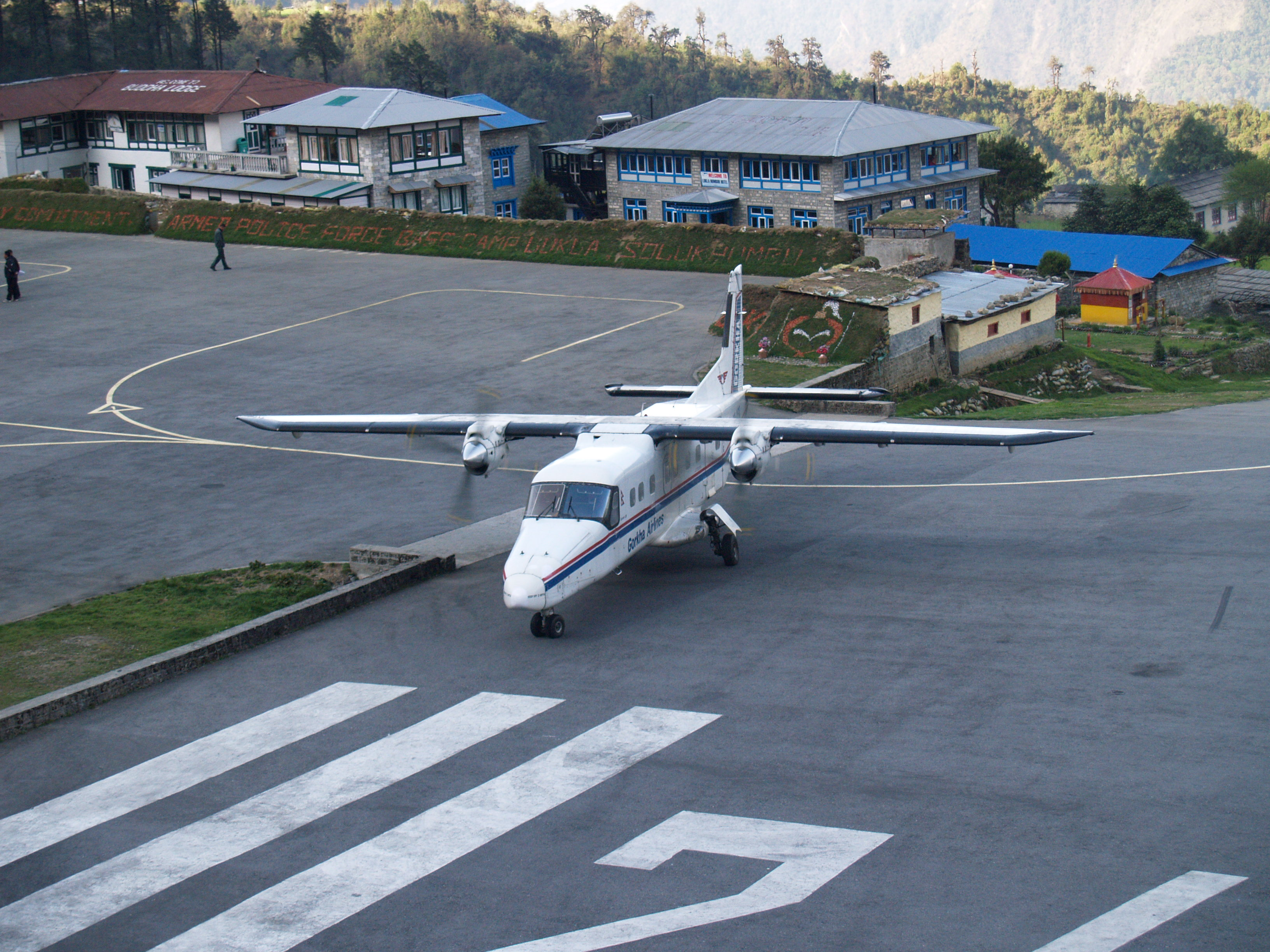 A Dornier Do 228 of Gorkha Airlines turns around on the runway 06/24 at Tenzing-Hillary Airport in Lukla, Nepal